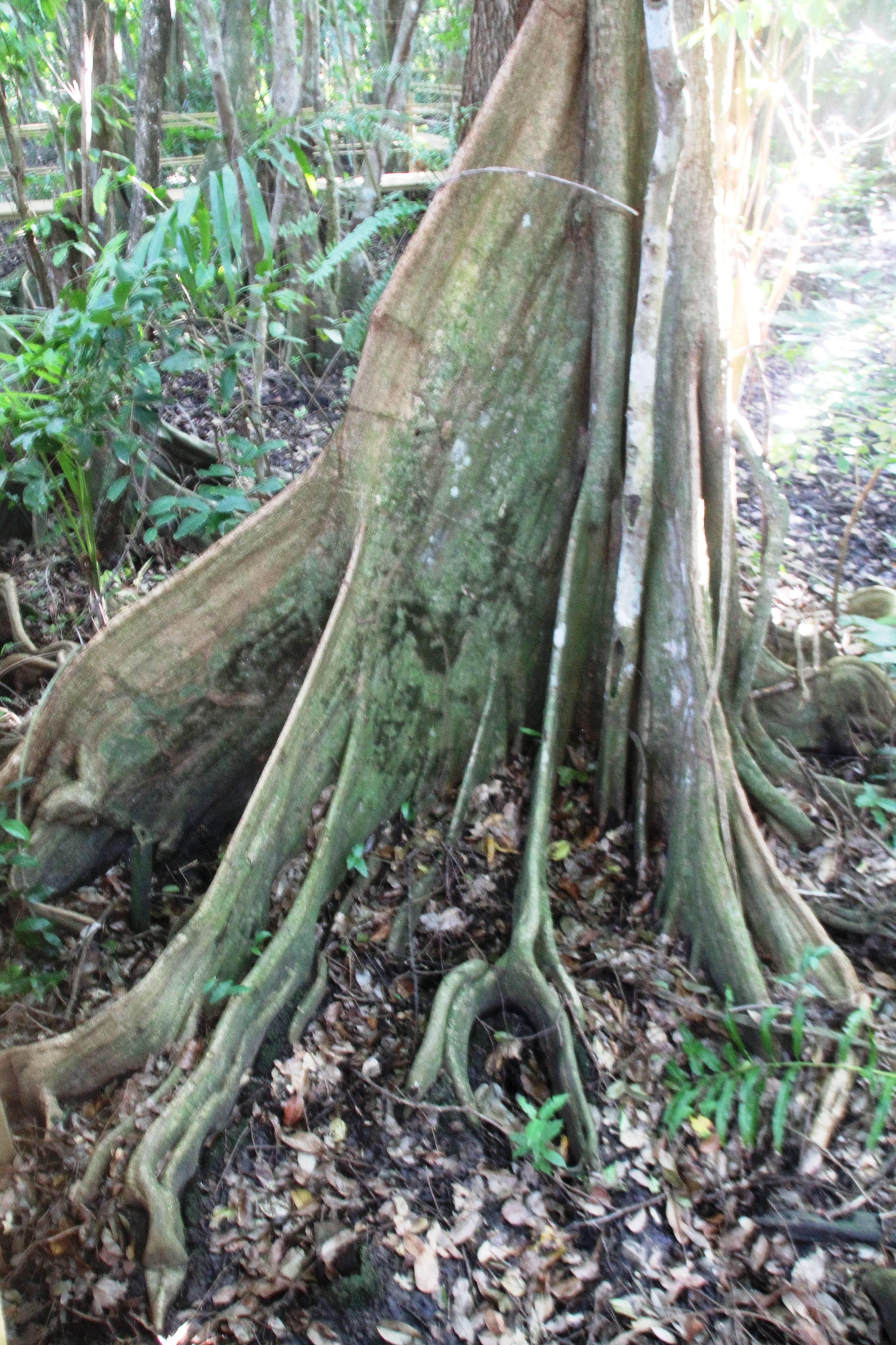 Pterocarpus officinalis is a characteristic tree, here in the specifically preserved Pterocarpus Forest of eastern Puerto Rico.